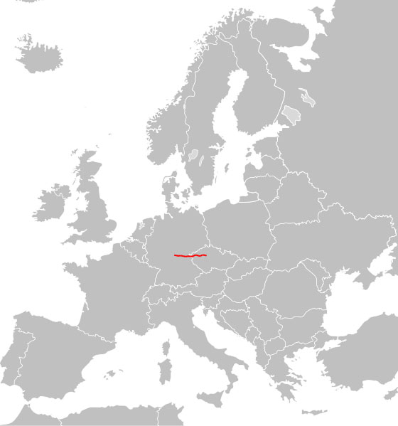 The European route 48